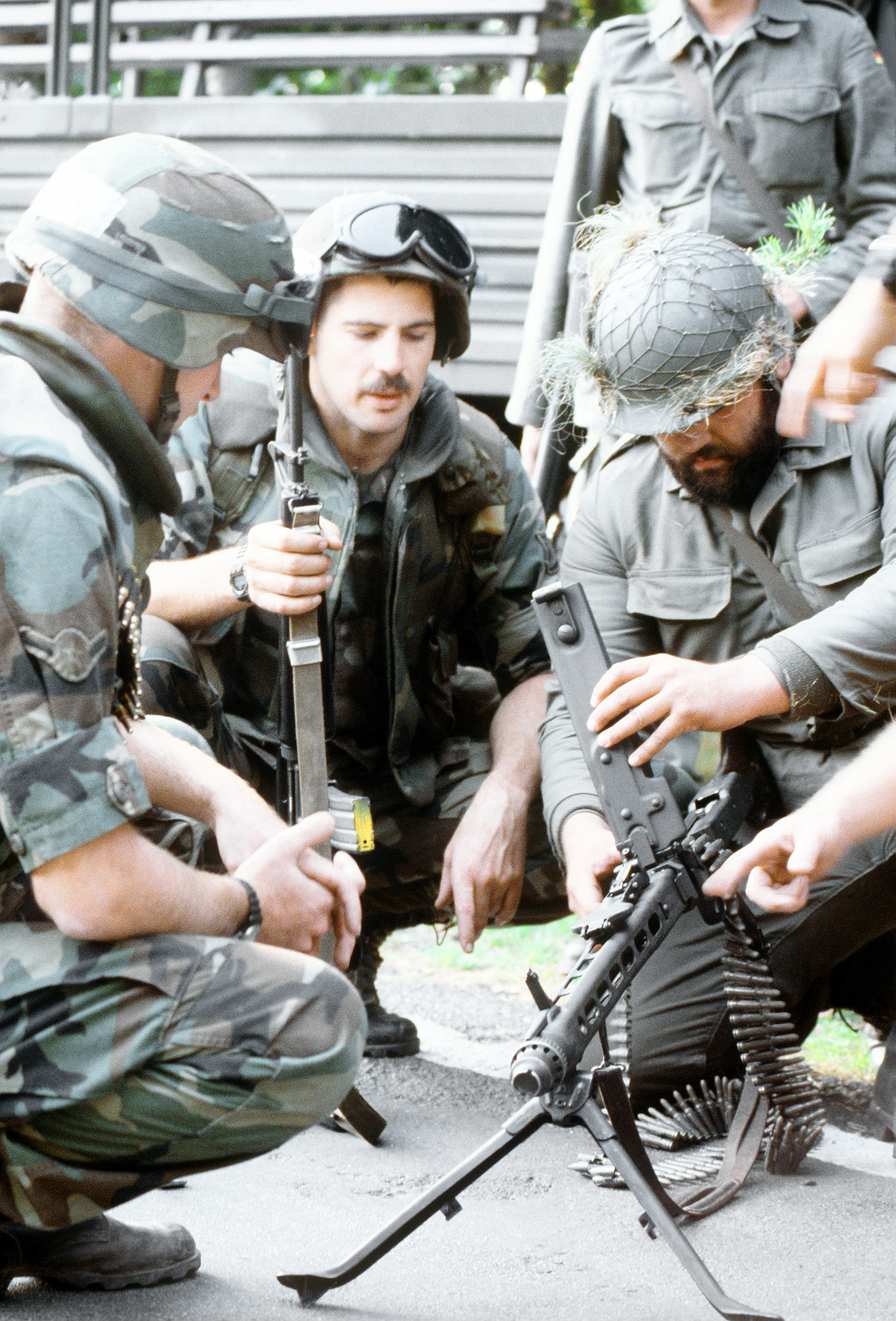 A West German army reservist from 1st Plt., 2nd Co., 942nd Bn., demonstrates the features of his MG-3 7.62mm machine gun to members of the 2750th Security Police Squadron during exercise Creek Warrior '88.